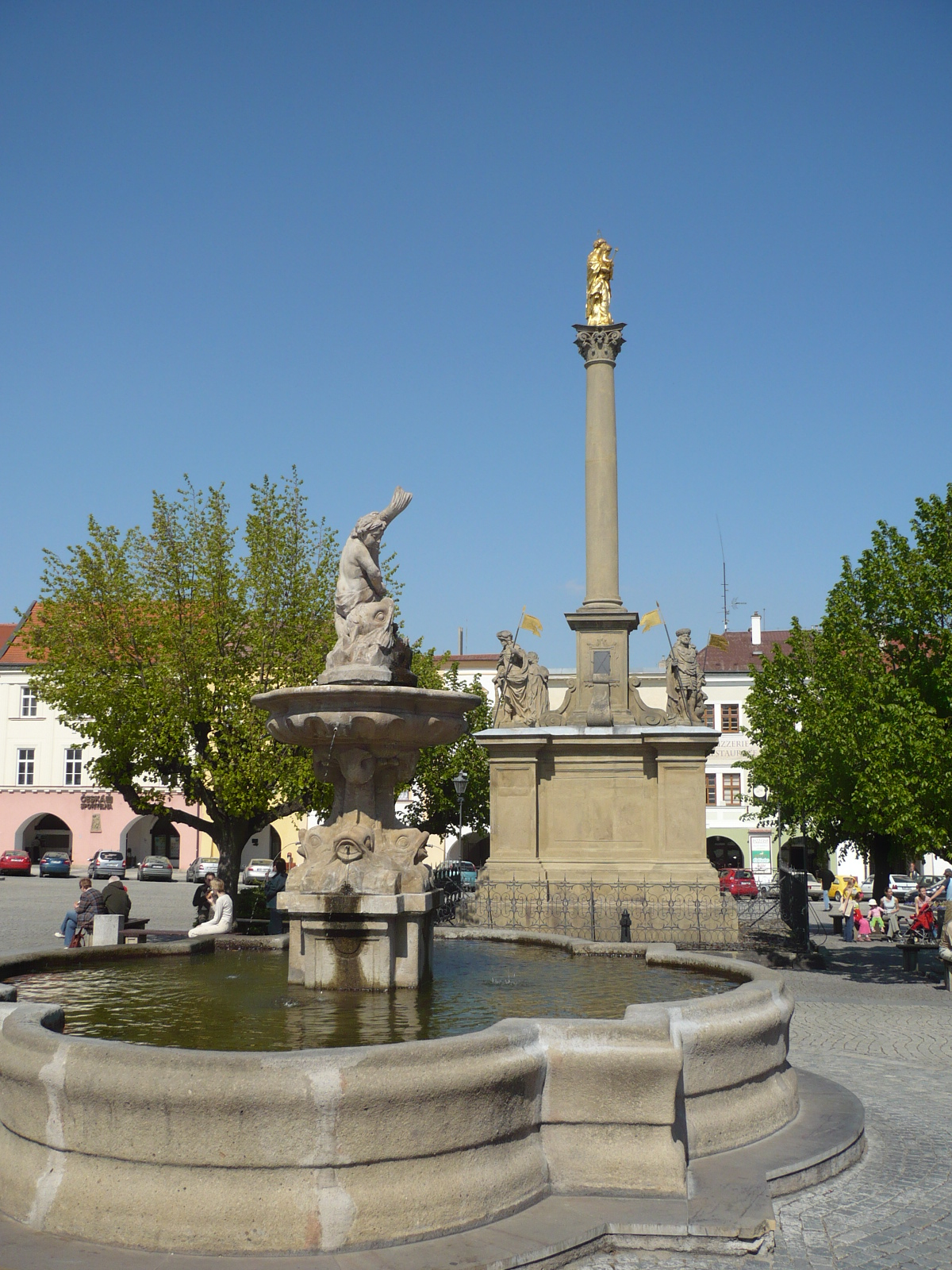 Kromeriz - Fountain and Plague Pillar